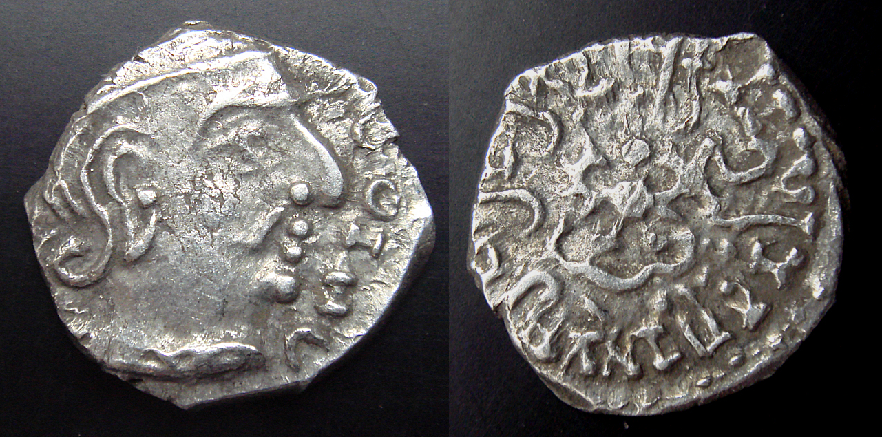 Chandragupta II. Own work.